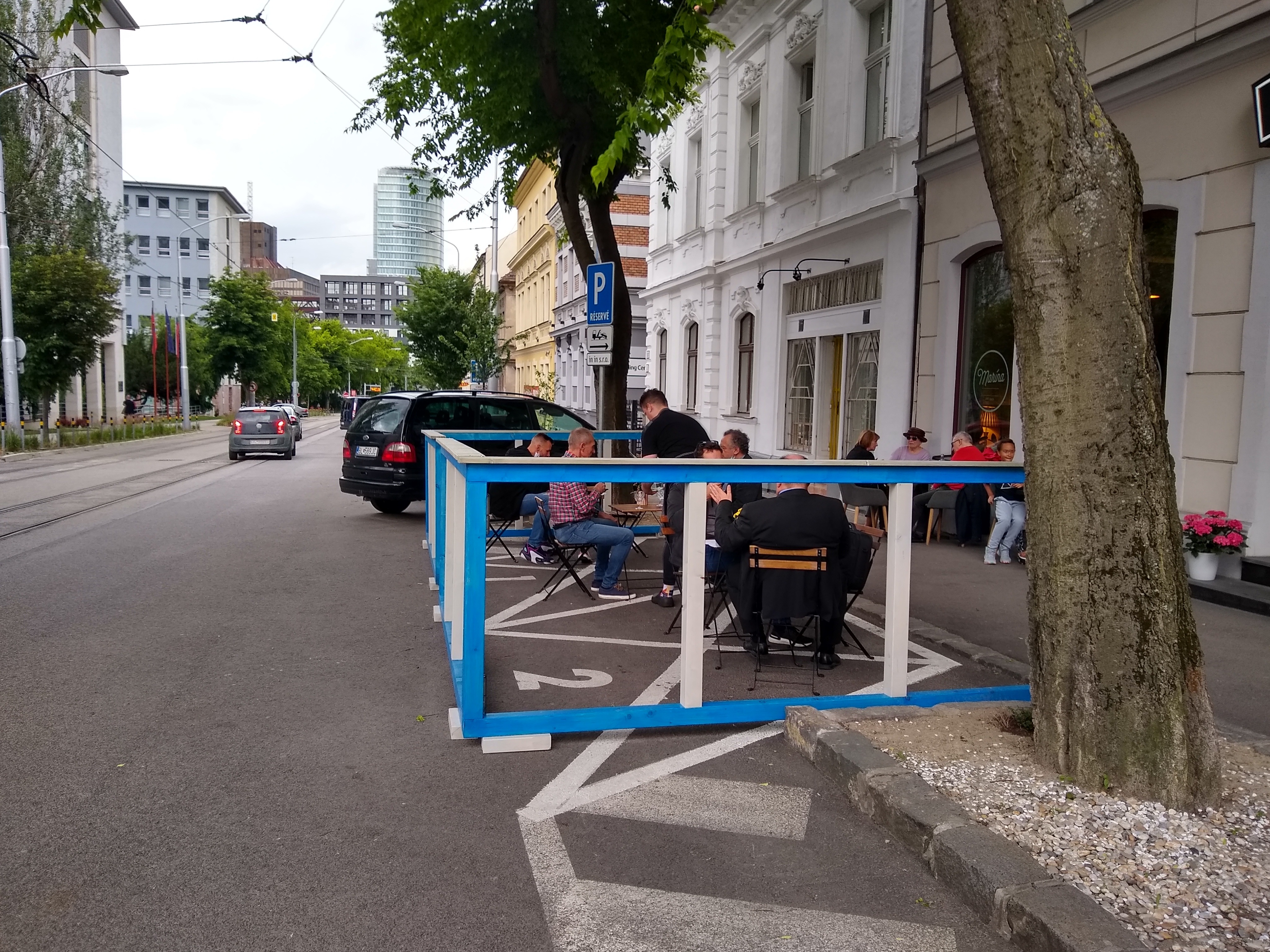 Parklet in Bratislava by Marína café